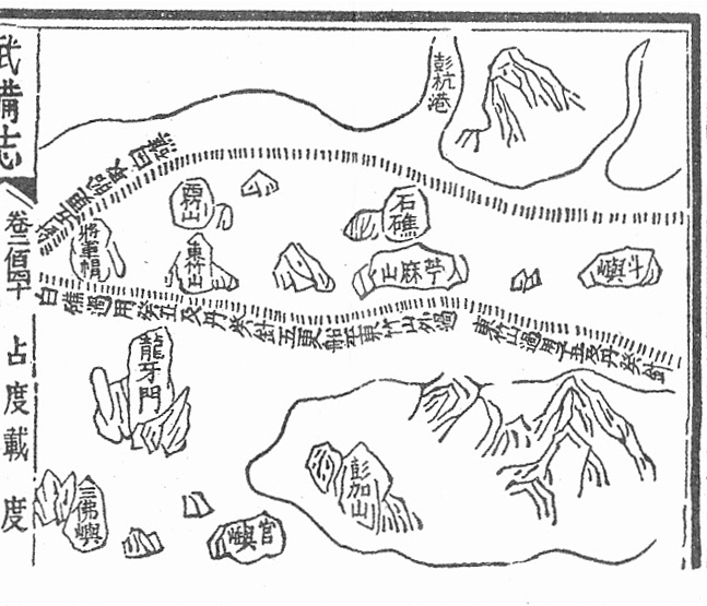 Mao Kun map showing part of the east coast of Malaysia. Marked on the map are Pulau Tinggi (將軍帽), Pulau Aur (東竹山 and 西竹山), Pahang River estuary (彭杭港), Pulau Siribuat (石礁), Pulau Tioman (苧麻山) and Pulau Tenggol (斗嶼).